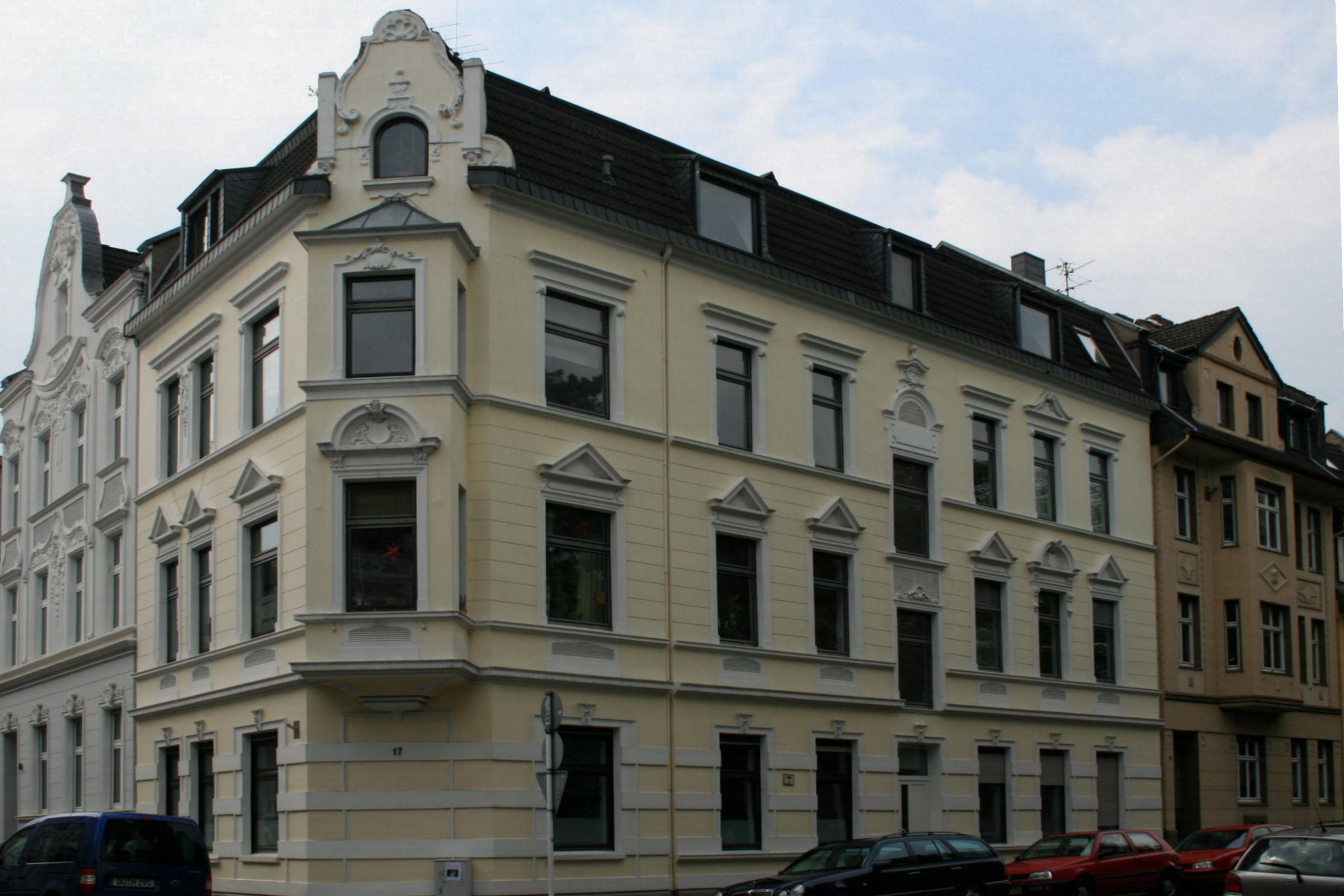 Cultural heritage monument No. H 092 in Mönchengladbach